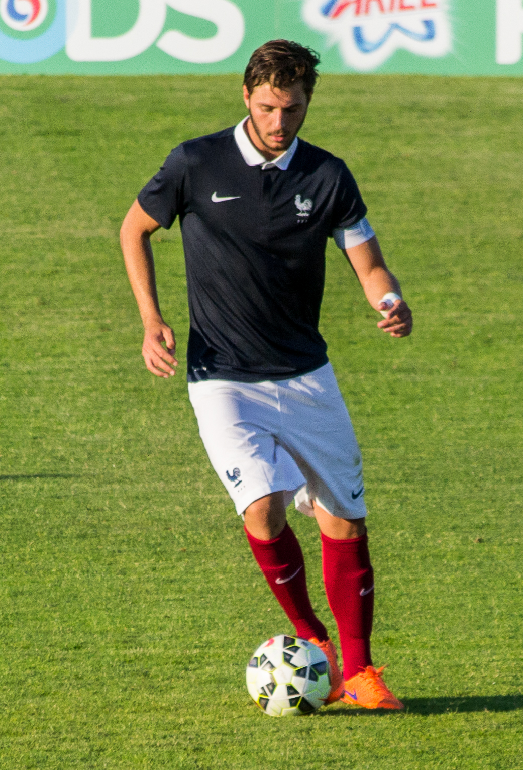 Stéphane Sparagna playing for France U-23 against Costa Rica in 2015 Toulon Tournament